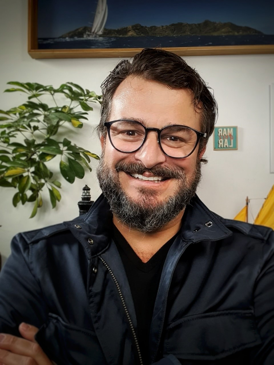 David Schurmann - 2020